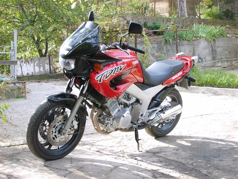 Iasen Hristov's 1999 TDM 850.